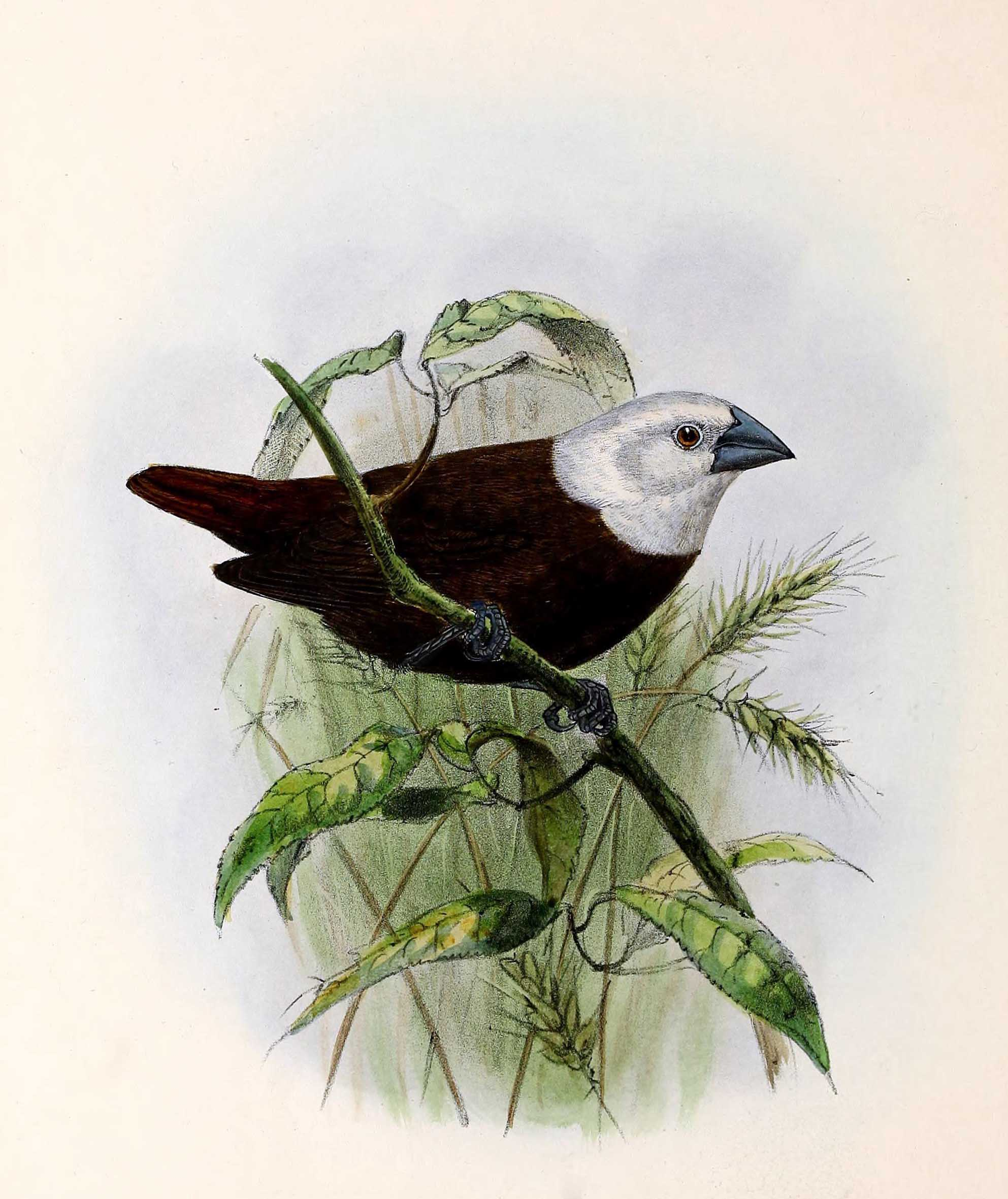 « Munia maja » = Lonchura maja (White-headed munia)